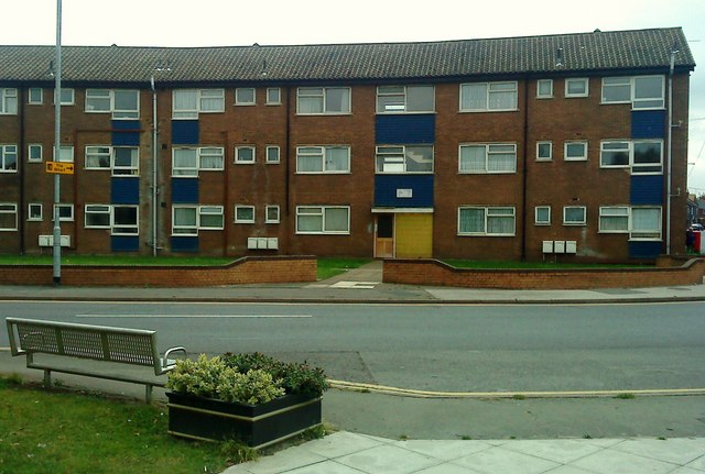 Delightful Flats in Ferrybridge